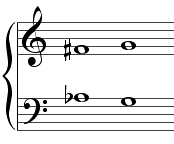 Augmented sixth interval resolving to octave